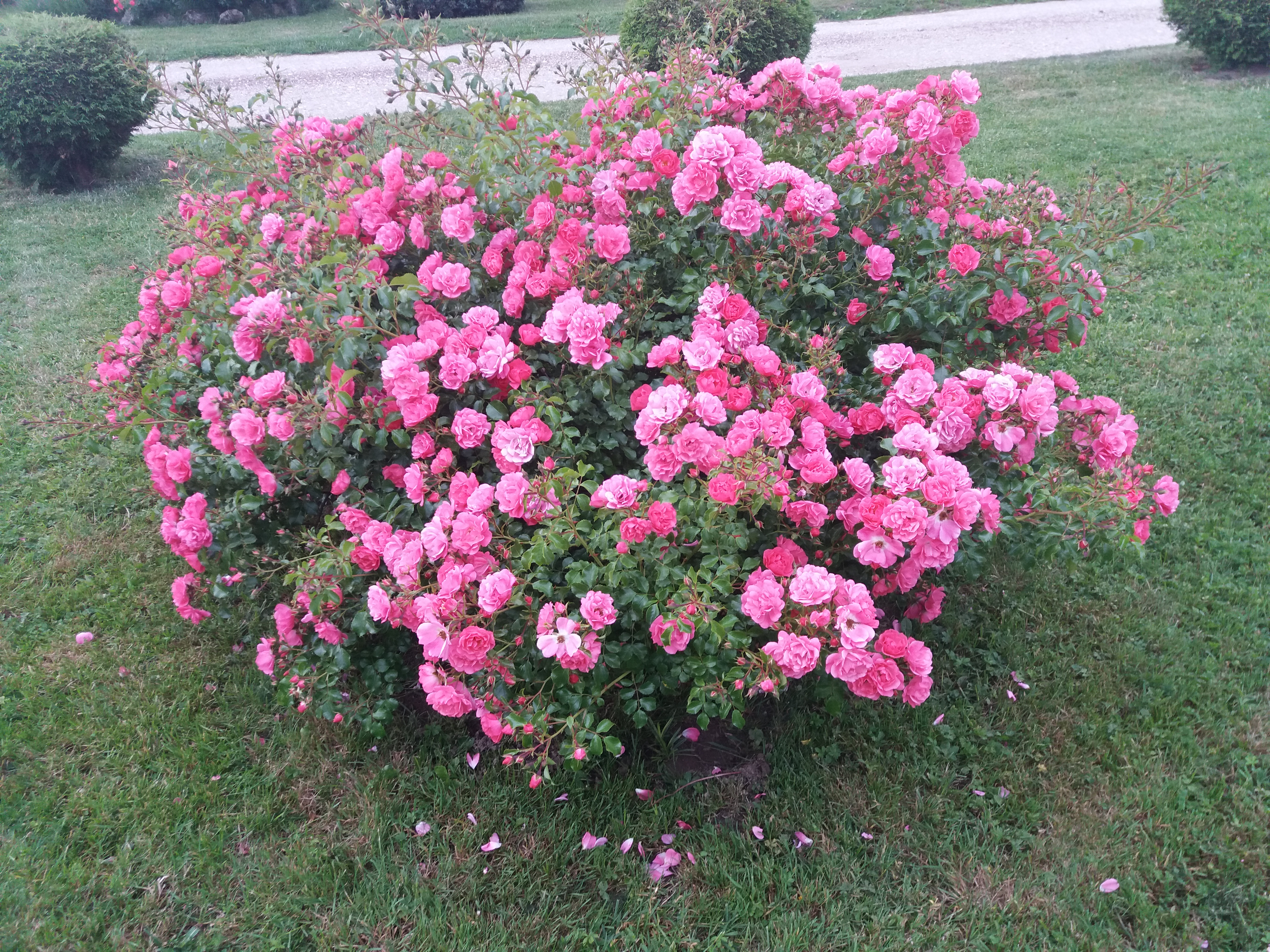 A bush of Heidetraum rose Srpskohrvatski / српскохрватски: Grm ruže sorte Heidetraum